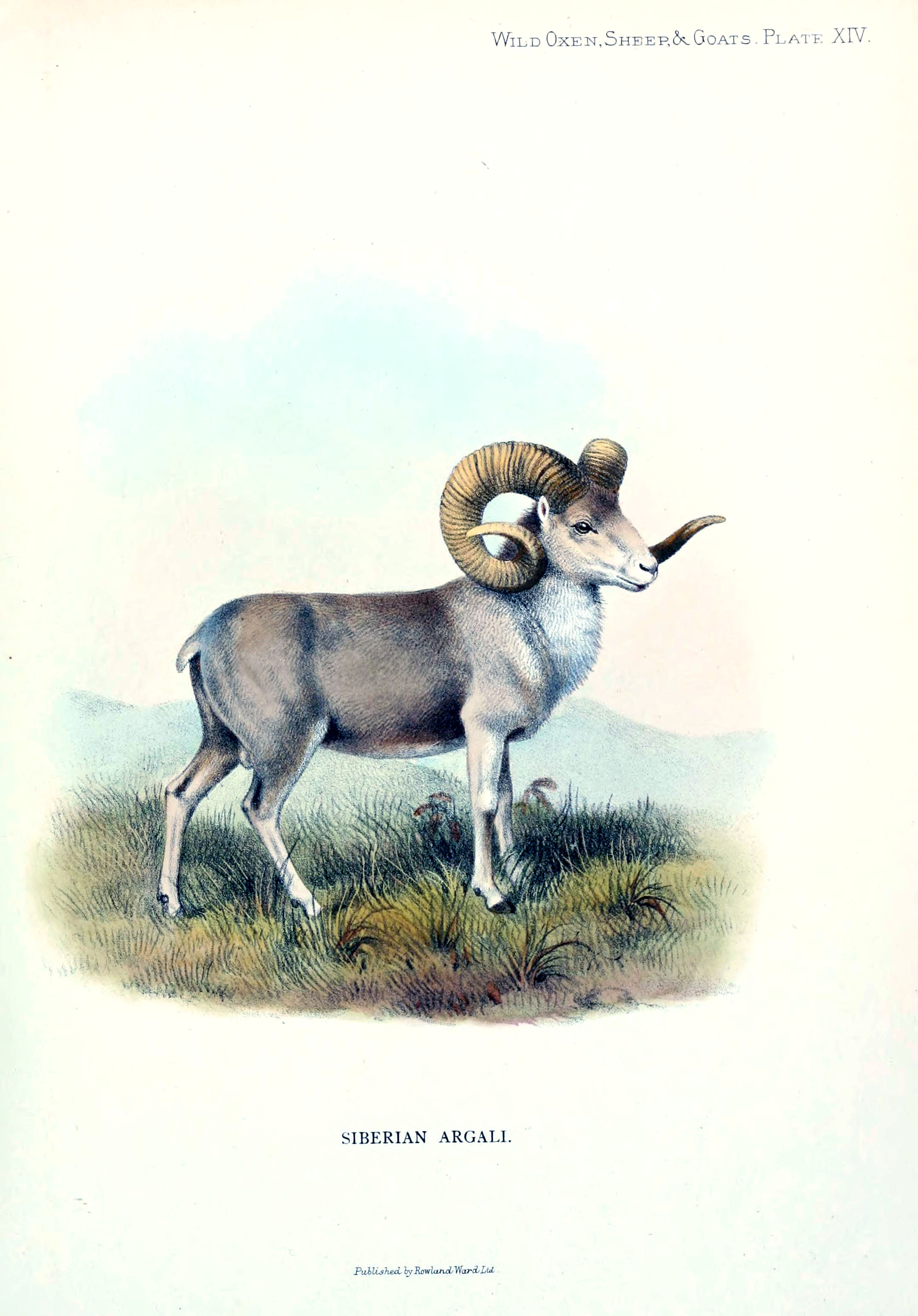 Altai argali (Ovis ammon ammon)